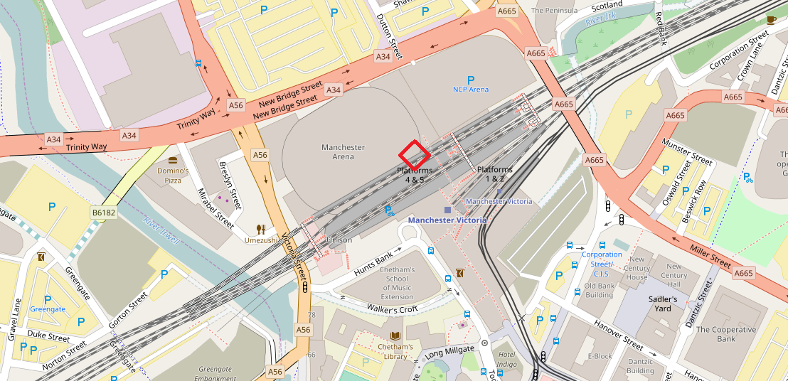 Manchester bombing location